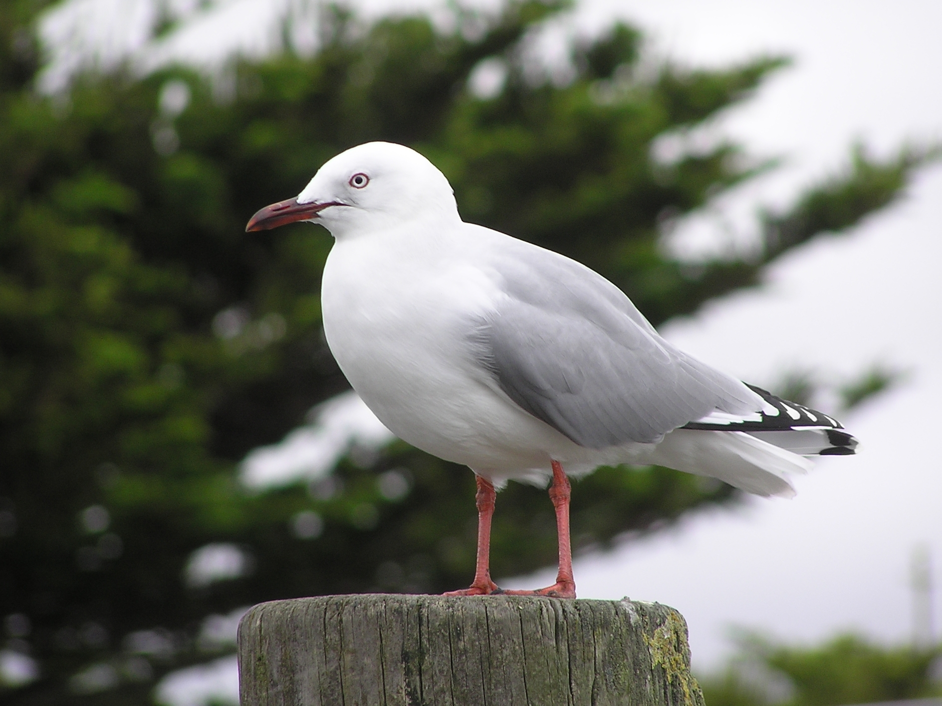 Red billed gull in Petone, Wellington, New Zealand.